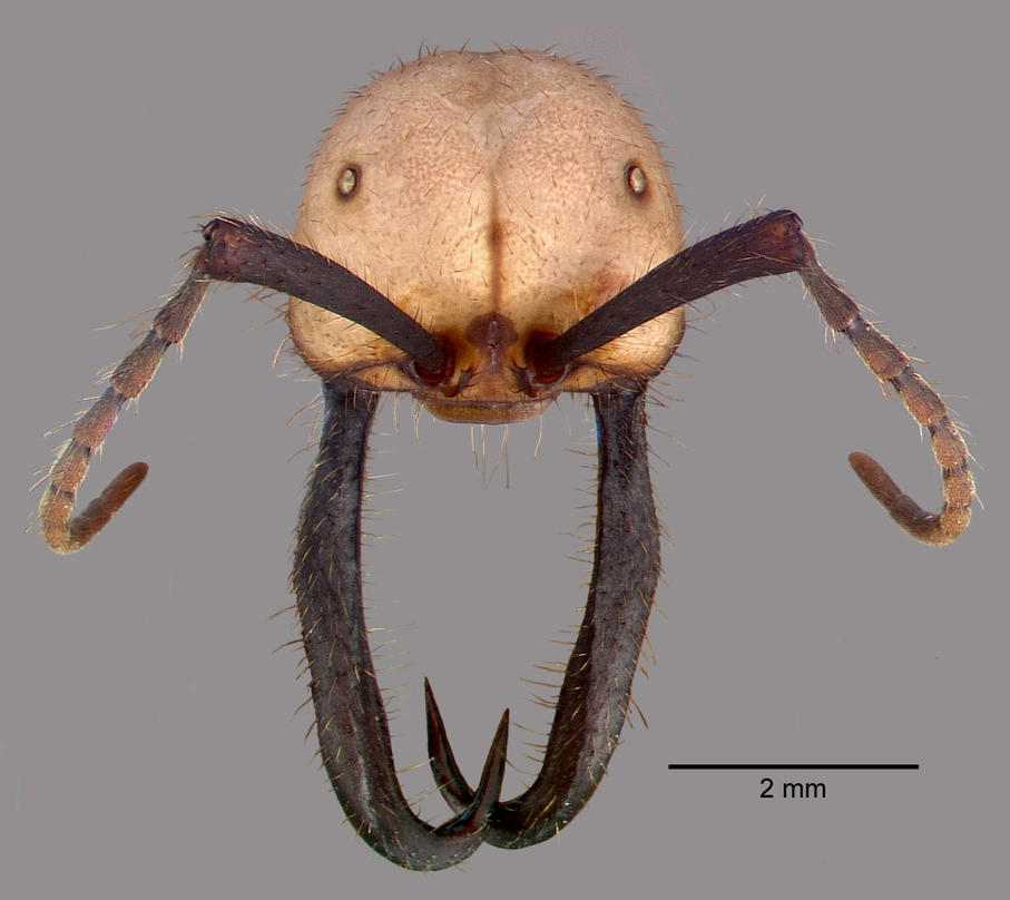 Head view of ant Eciton burchellii specimen casent0009221.